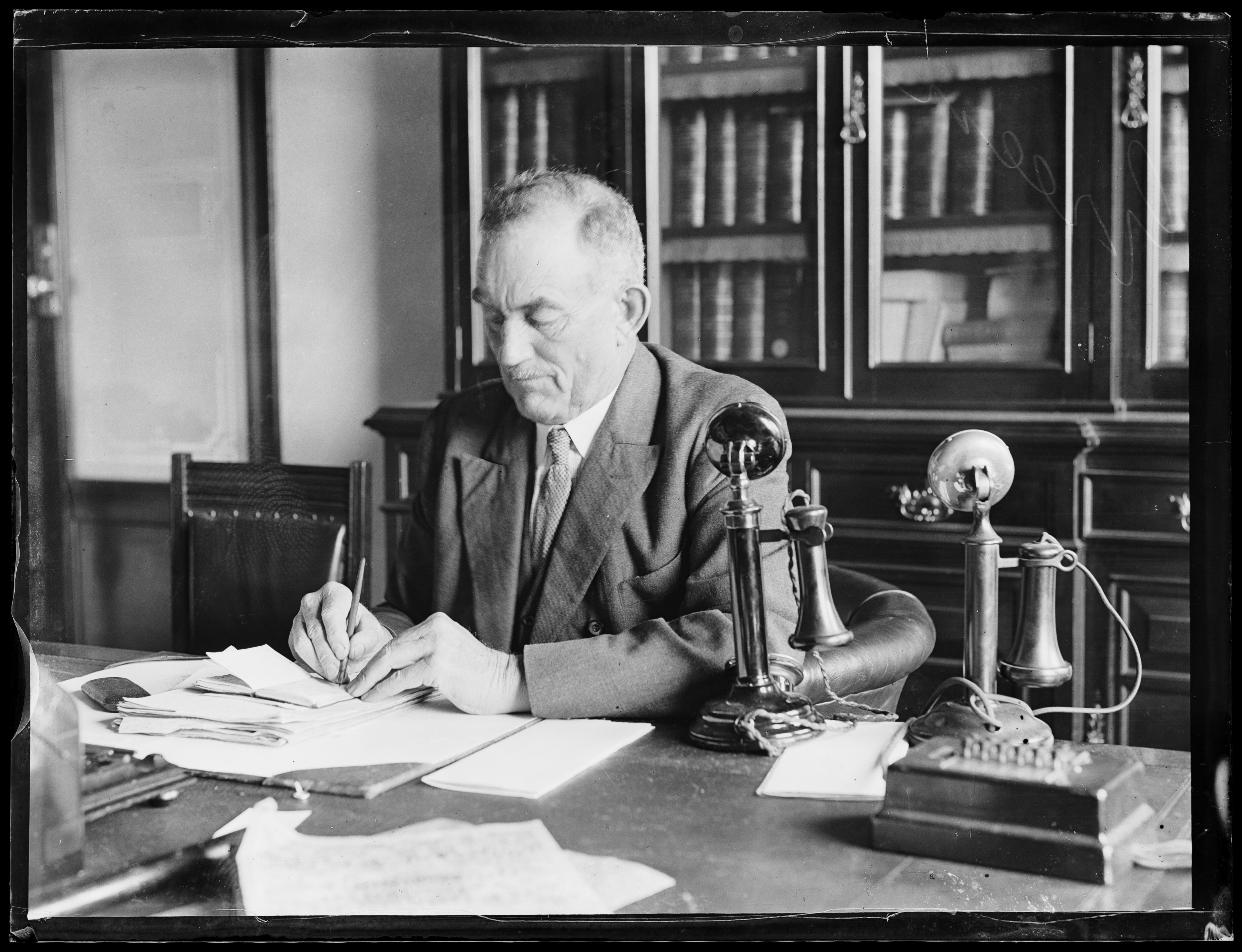 Albert Green, Postmaster-General of Australia